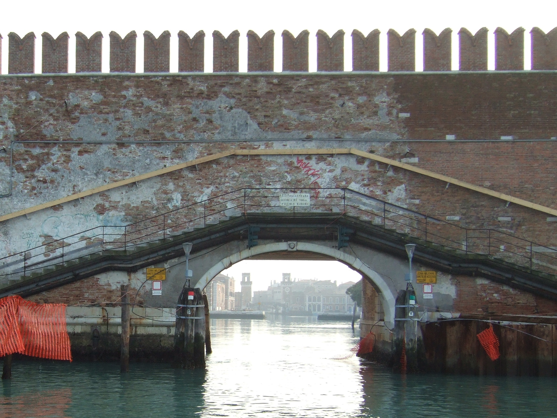 Northern entrance to Arsenal and Canale delle Galeazze (Venice)